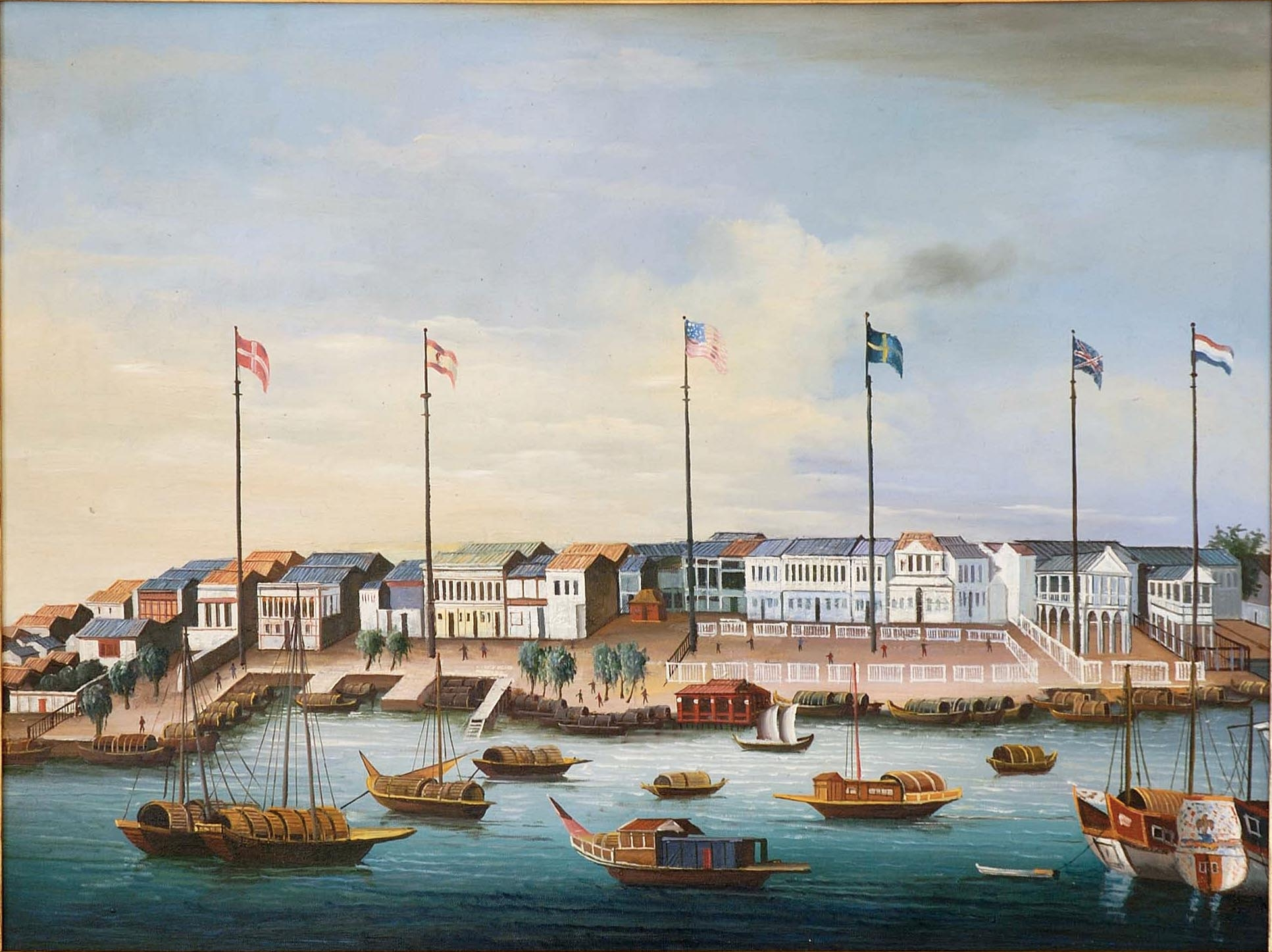 An export painting of the Thirteen Factories at Guangzhou. The flags of Denmark, Spain, the U.S., Sweden, Britain, and the Netherland are visible.